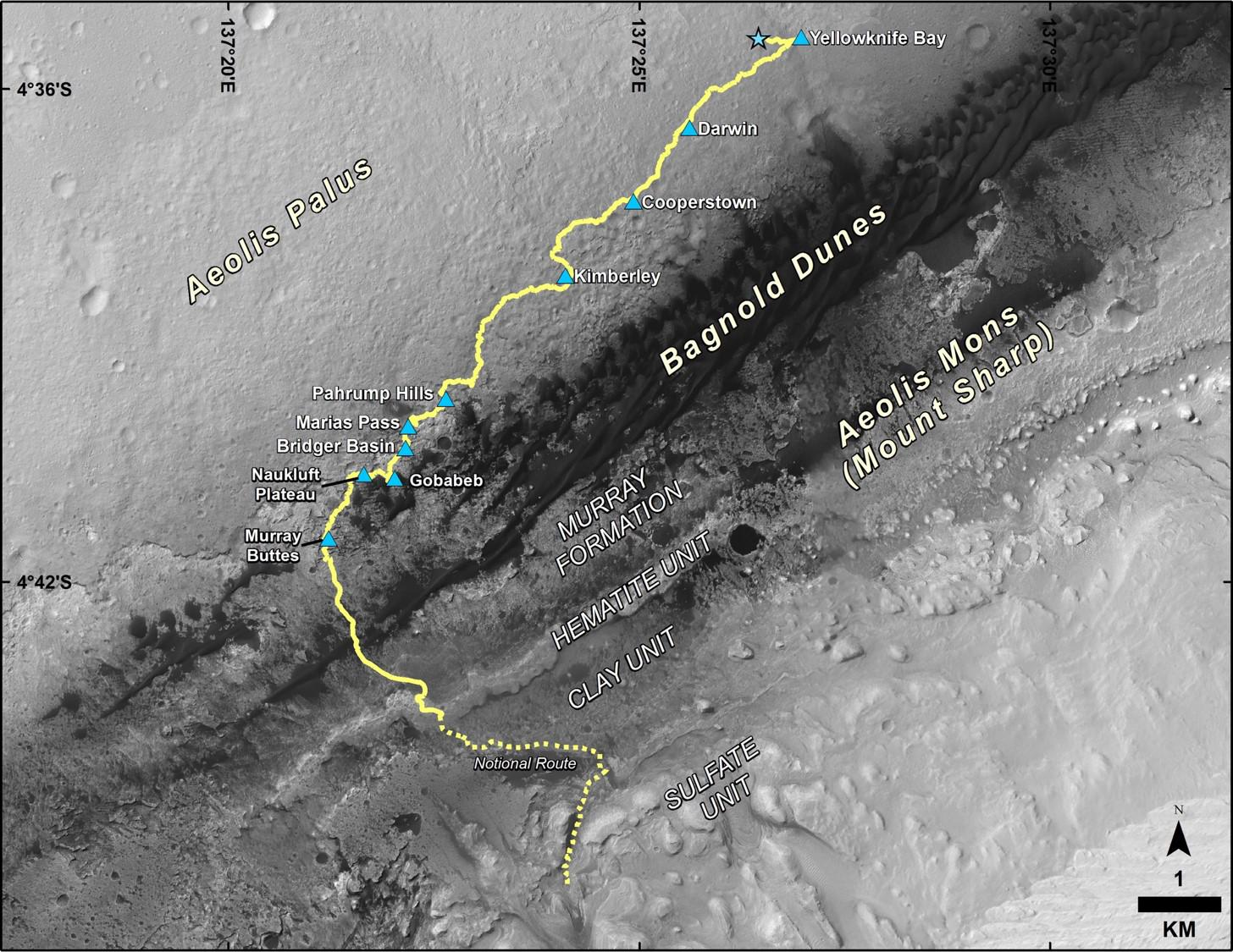 This map shows the route driven by NASA's Curiosity Mars rover from the location where it landed in August 2012 to its location in December 2016, which is in the upper half of a geological unit called the Murray formation, on lower Mount Sharp. Blue triangles mark waypoints investigated by Curiosity during the rover's two-year prime mission and first two-year extended mission. The "Hematite Unit" and "Clay Unit" are key destinations for the second two-year extension, through September 2018. An approximate possible route is indicated for studying those layers of the mountain. The base image for the map is from the High Resolution Imaging Science Experiment (HiRISE) camera on NASA's Mars Reconnaissance Orbiter. North is up. Bagnold Dunes form a band of dark, wind-blown material at the foot of Mount Sharp. The scale bar at lower right represents one kilometer (0.62 mile). For broader-context images of the area, see PIA17355, PIA16064 and PIA16058. Presented at the 2016 AGU Fall Meeting on Dec. 13. in San Francisco, CA. NASA's Jet Propulsion Laboratory, a division of Caltech in Pasadena, California, manages the Mars Science Laboratory Project and Mars Reconnaissance Orbiter Project for NASA's Science Mission Directorate, Washington. For more information about Curiosity, visit and